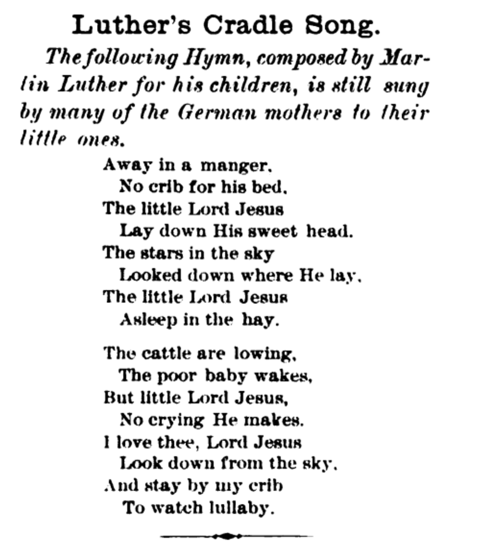 The first known publication of "Away in a Manger", from the November 1883 issue of The Sailor's Magazine and Seamen's Friend